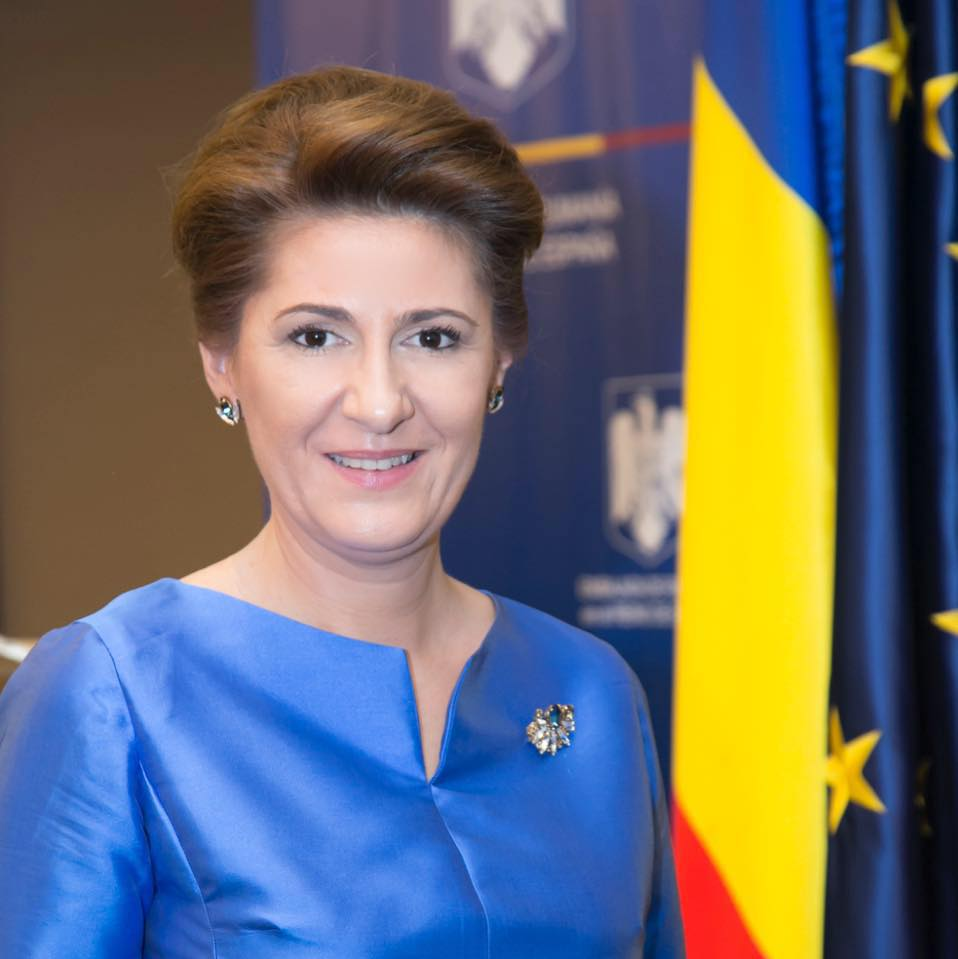 Gabriela Dancău, Ambasadorul Extraordinar și Plenipotențiar al României în Regatul Spaniei